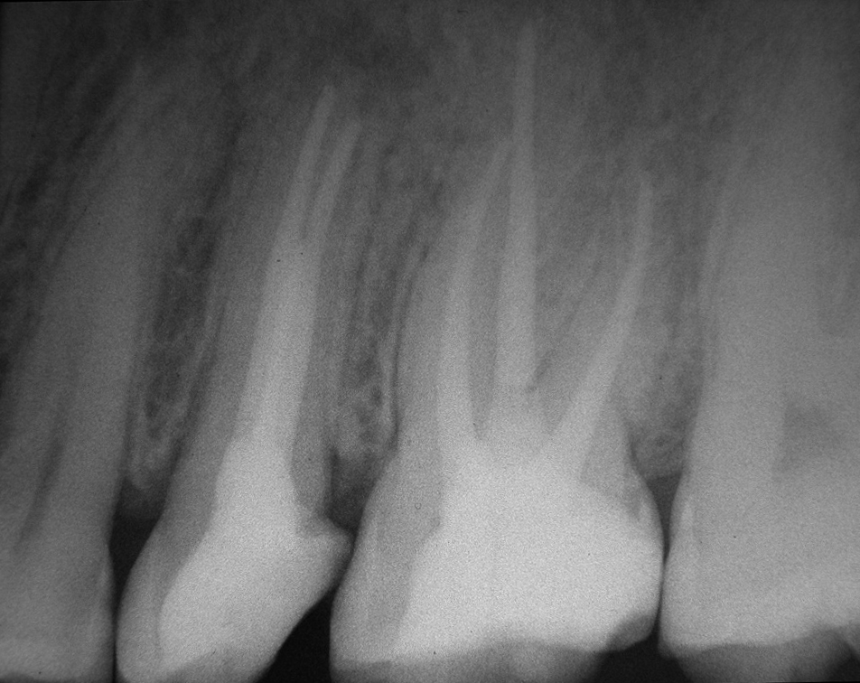 Endodontically treated teeth (teeth which had root canals done on them)